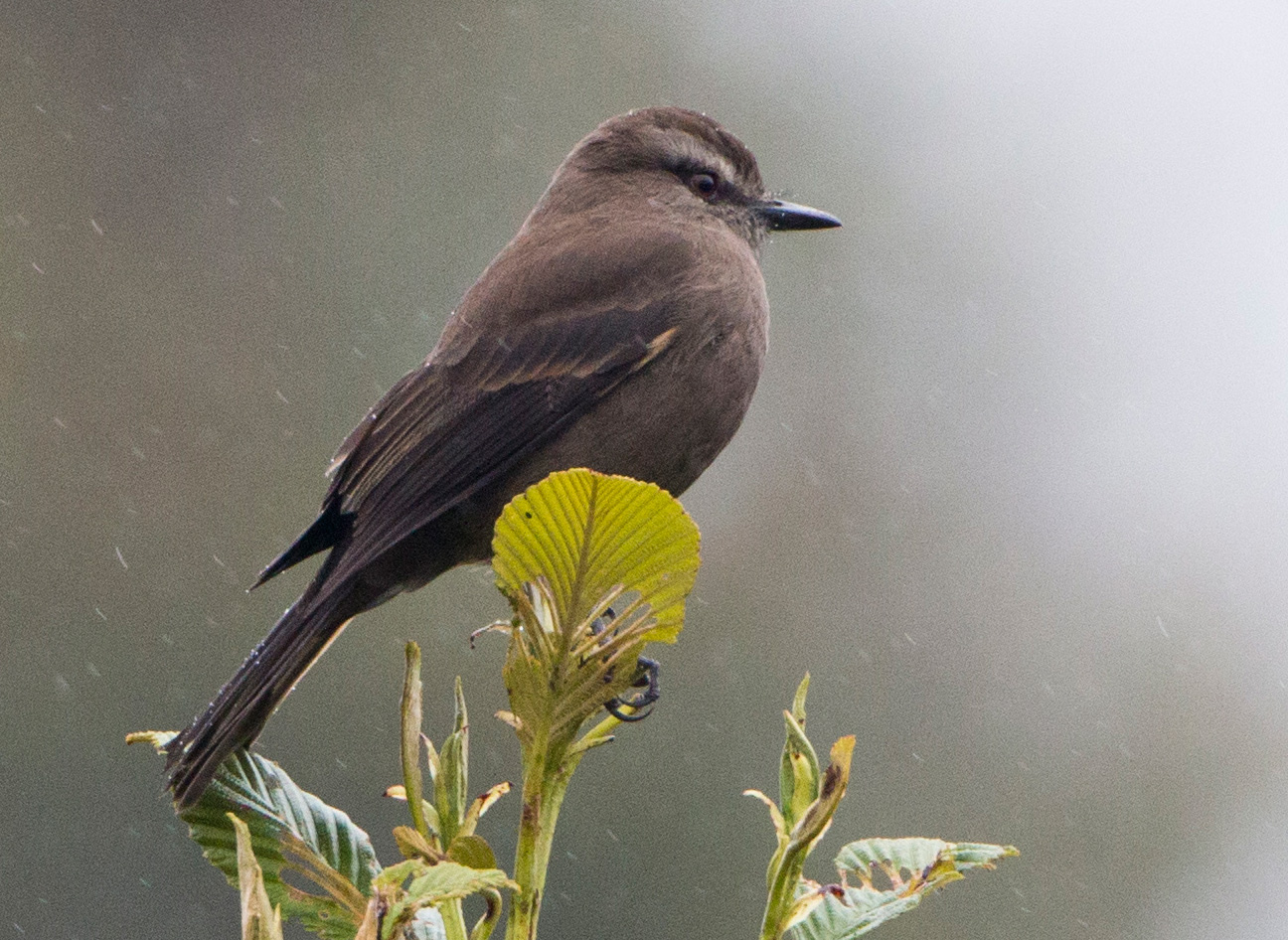 Smoky Bush-tyrant, Sangay NP, Ecuador